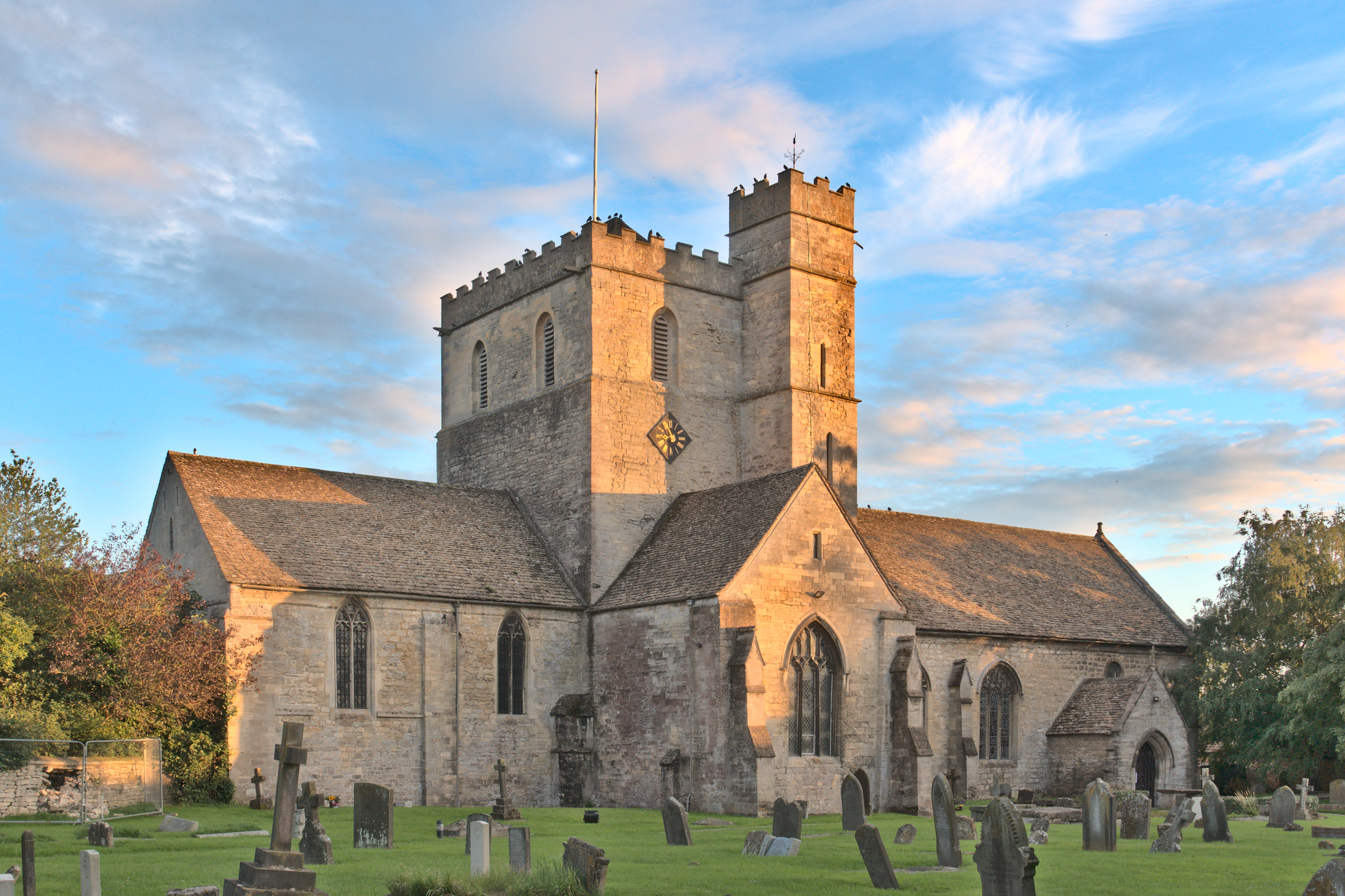 St Swithun's Church, Leonard Stanley, July 2020